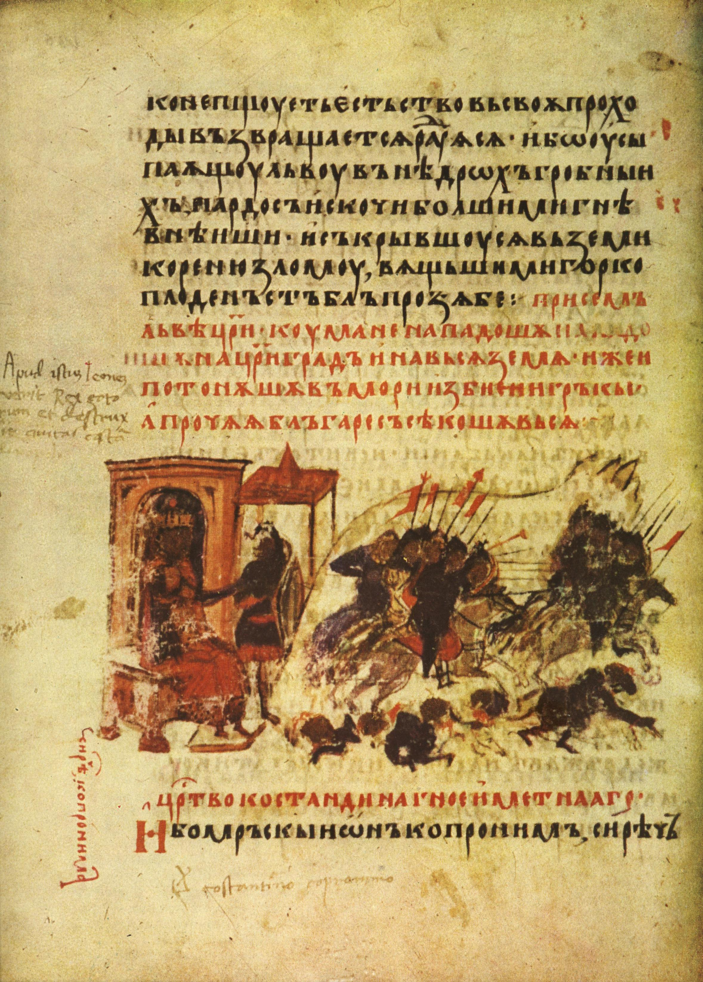 Miniature 47 from the Constantine Manasses Chronicle, 14 century: The arabs attacking Constantinople during the reign of emperor Leo III.